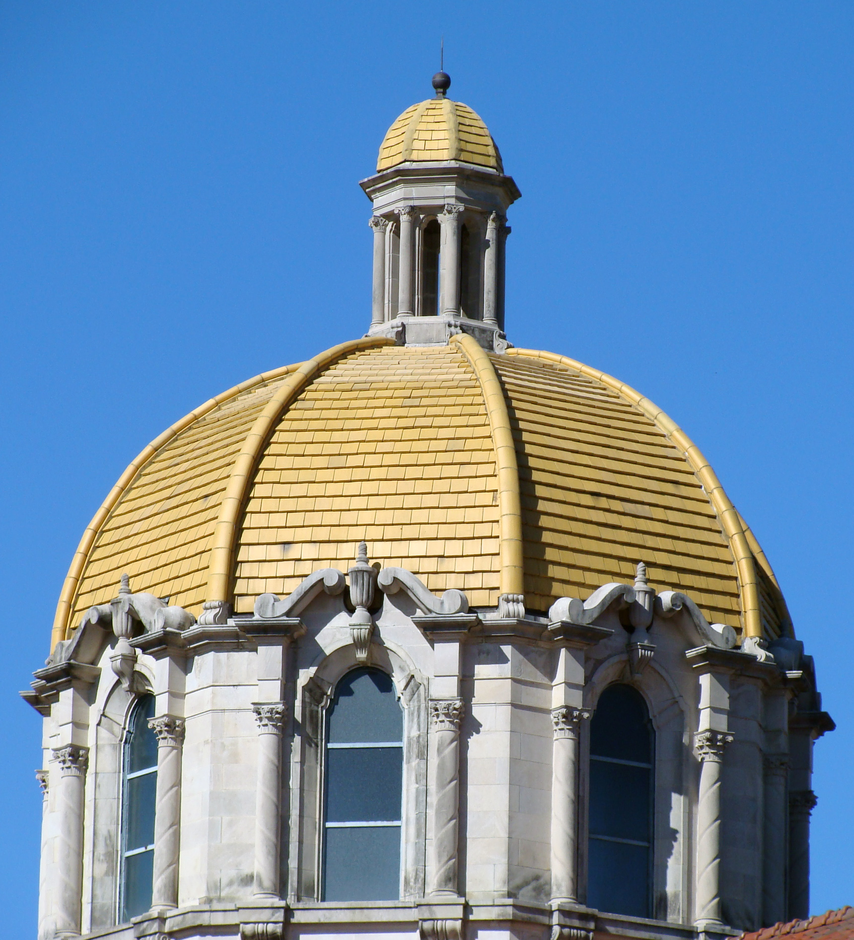 Basilica of the National Shrine of the Little Flower, San Antonio, Texas